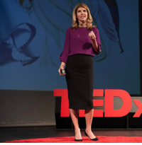 Ettus Ted Talk